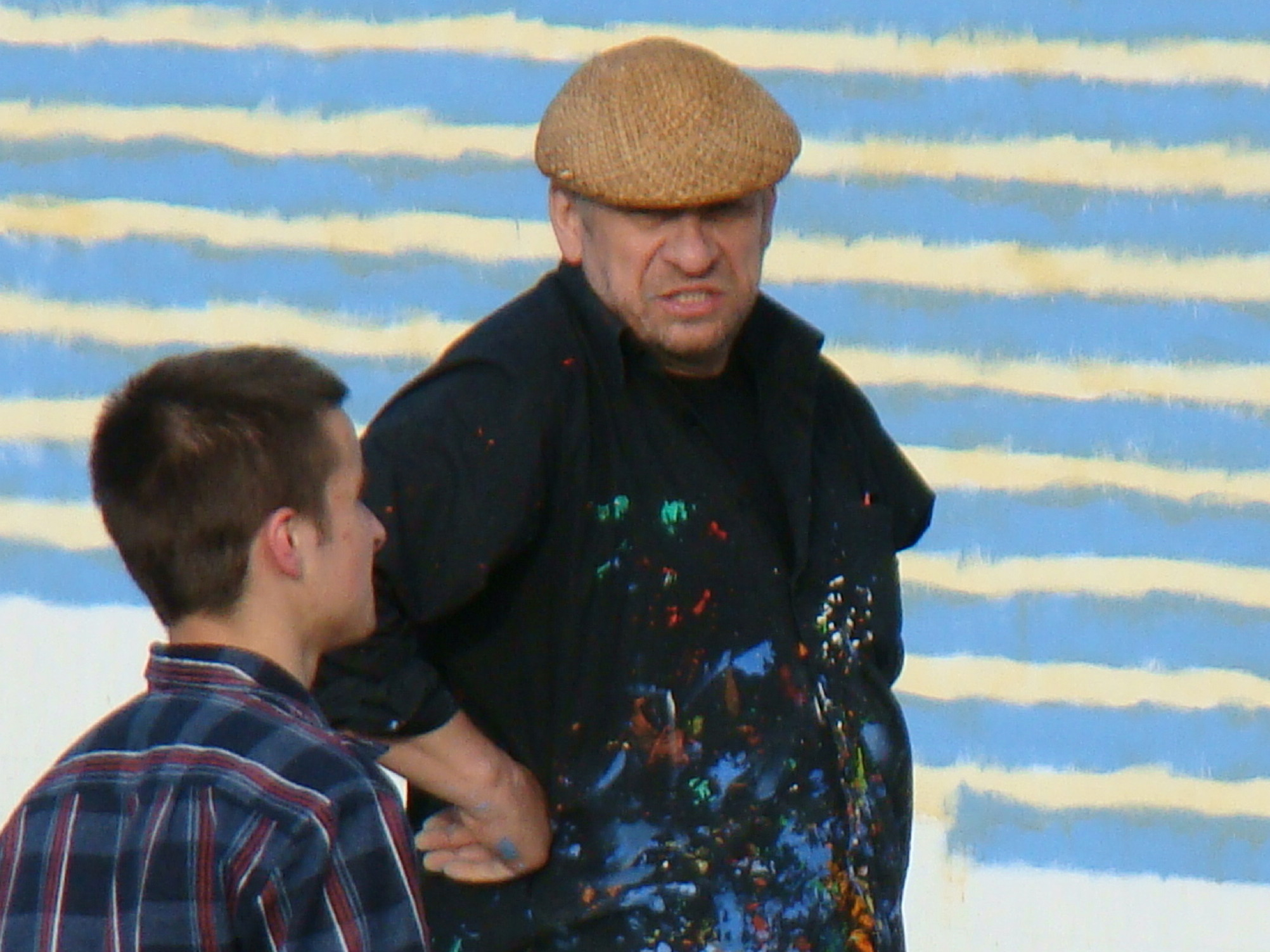 Leon Tarasewicz.